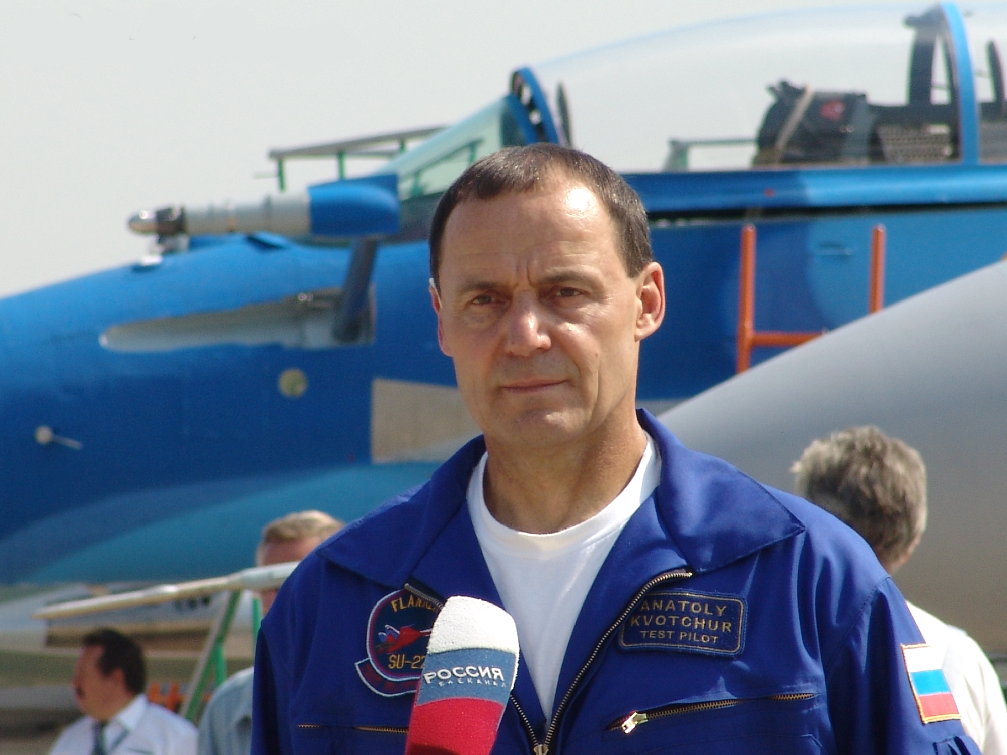 Test-pilot Anatoly Kvotchur at MAKS-2007 airshow